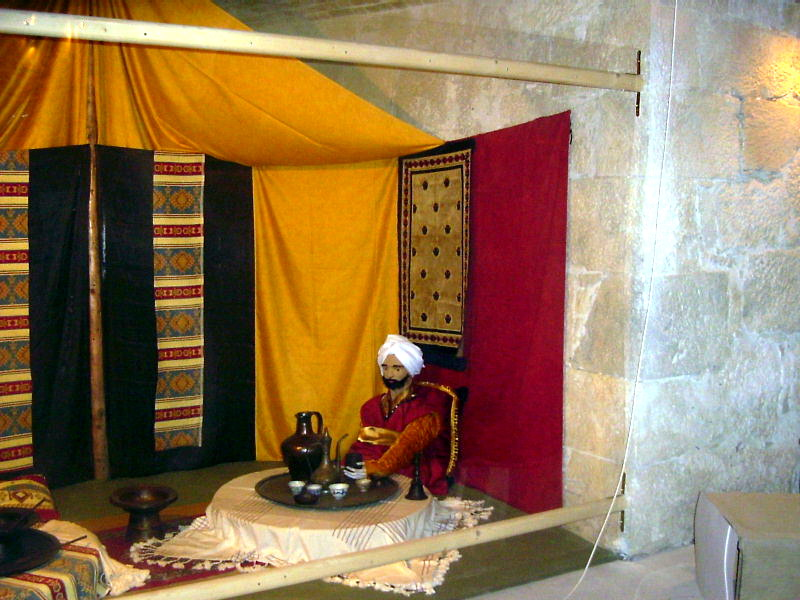 Dining in the Turkish period. Exhibition in Fort Monostor, Komárom.